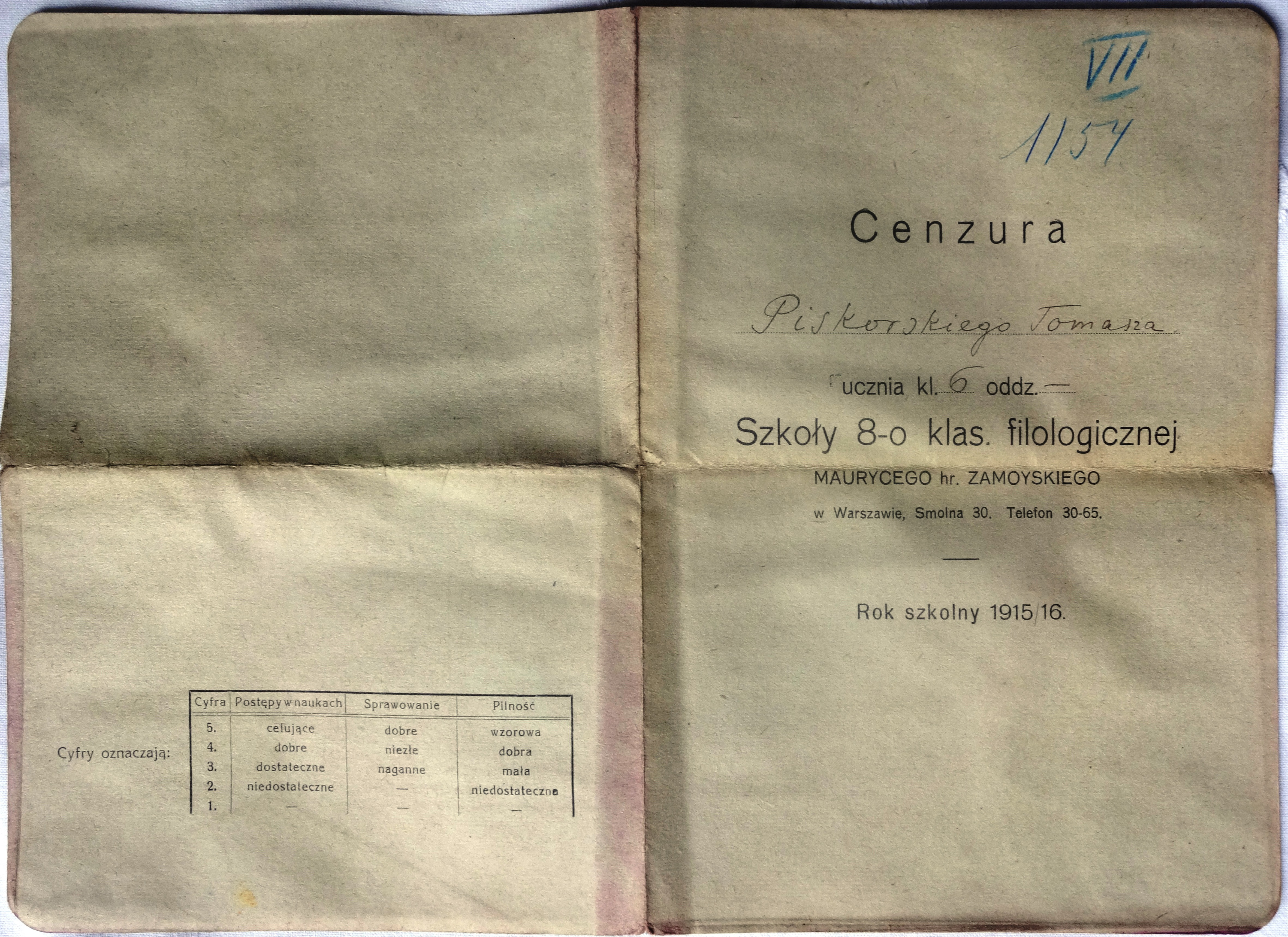 Świadectwo szkolne Tomasza Piskorskiego z VI klasy Szkoły Ośmioklasowej Filologicznej im. Maurycego hr. Zamoyskiego z 1916 roku